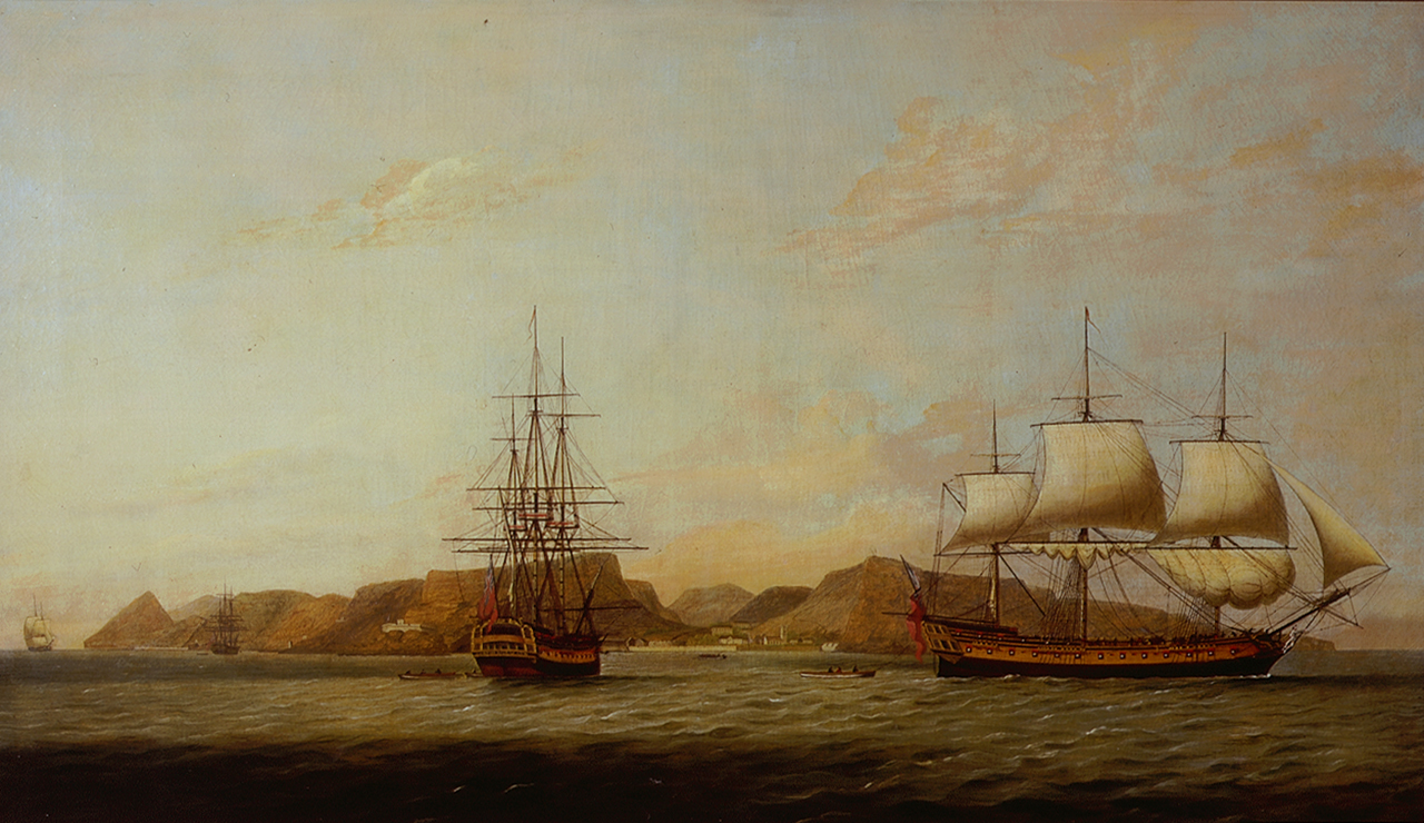 The East Indiaman 'Northumberland' off Saint Helena A ship’s portrait of the East Indiaman ‘Northumberland’, shown at anchor in two positions. The stern view on the left and to the right is shown broadside-on with its boat tied astern. The ship is off the island of St Helena, which was a watering-place for homeward bound ships of the East India Company. Other shipping is anchored in the bay. The ‘Northumberland’ was constructed in 1780 at Wells's Yard for John Mitford and replaced an earlier vessel also named ‘Northumberland’. She first sailed for the company in June 1781 visiting St Helena and Bengal. Another smaller 600-ton ship was owned by the company from 1800-1816. The National Maritime Museum also holds a log book for the ship compiled during the last voyage of 1795-97, see DUD/13. In 1816 Luny also produced a painting, ‘Napoleon Bonaparte being transferred from the 'Bellerophon' to the 'Northumberland' at Torbay, August 1815’, which is now at Torre Abbey. The East Indiaman 'Northumberland' off Saint Helena